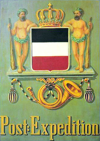 Coats of arms of the North German Confederation postal service, 1868-1871